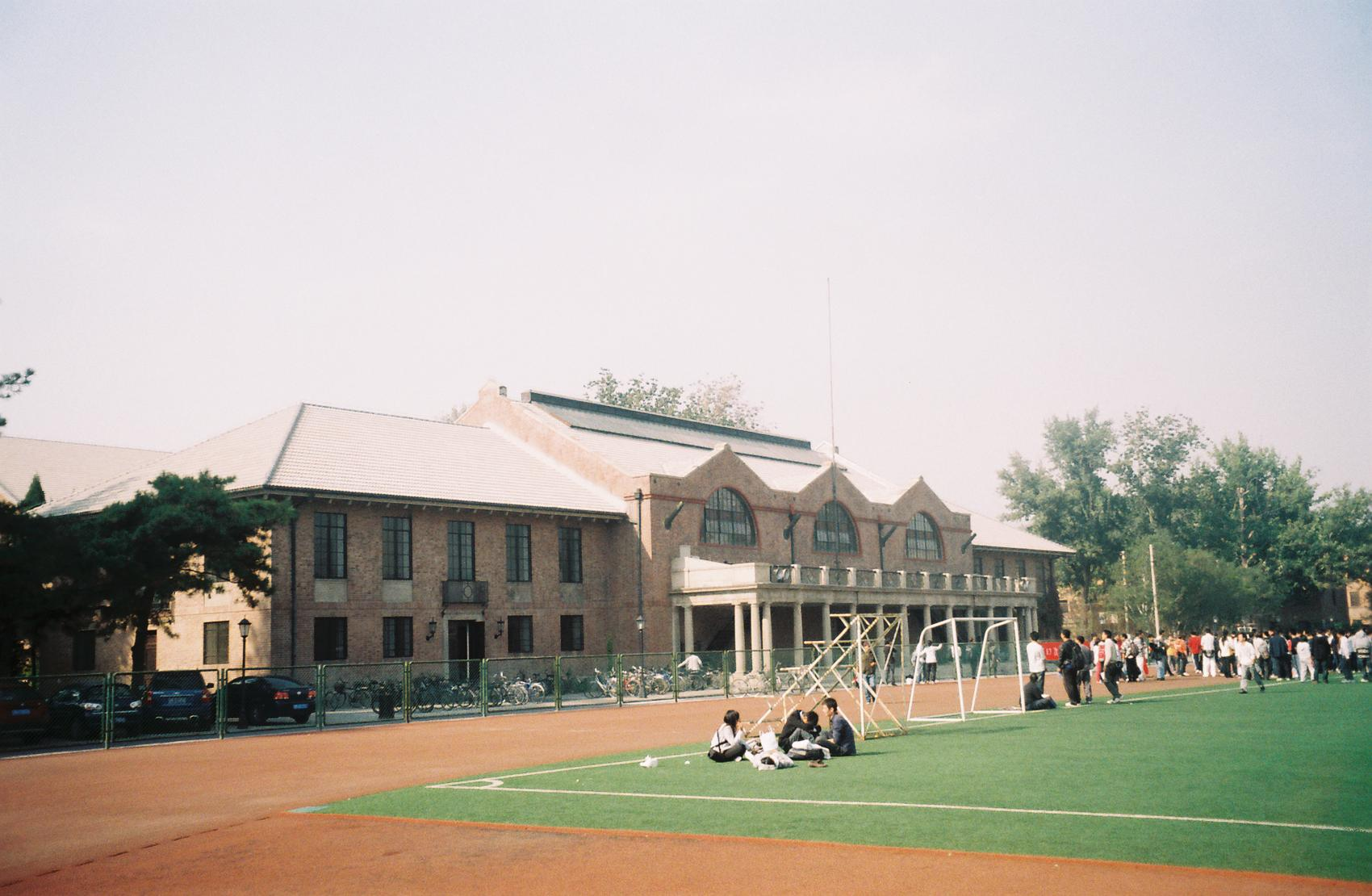 The Gym and tracks and fields at Tsinghua University in Beijing.